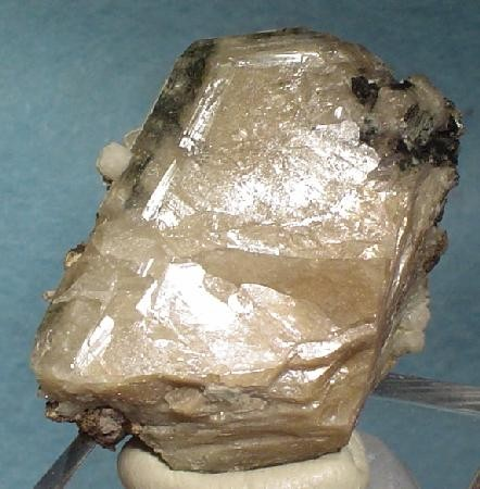 Catapleiite, Analcime, Aegirine Locality: Mont Saint-Hilaire, Rouville RCM, Montérégie, Québec, Canada (Locality at ) Size: 3.3 x 2.6 x 1.5 cm. A classic and excellent combination specimen from the famous Mt.St-Hilaire of Quebec, with an unusually robust crystal! This is an old-timer. This is a well-terminated, very glassy, tabular, tan catapleiite crystal is nicely accented by sharp, porcelaneous, 3 mm analcime crystal on one edge and by aegirine crystals included within the catapleiite. A showy and desirable combo piece from this famous locality.